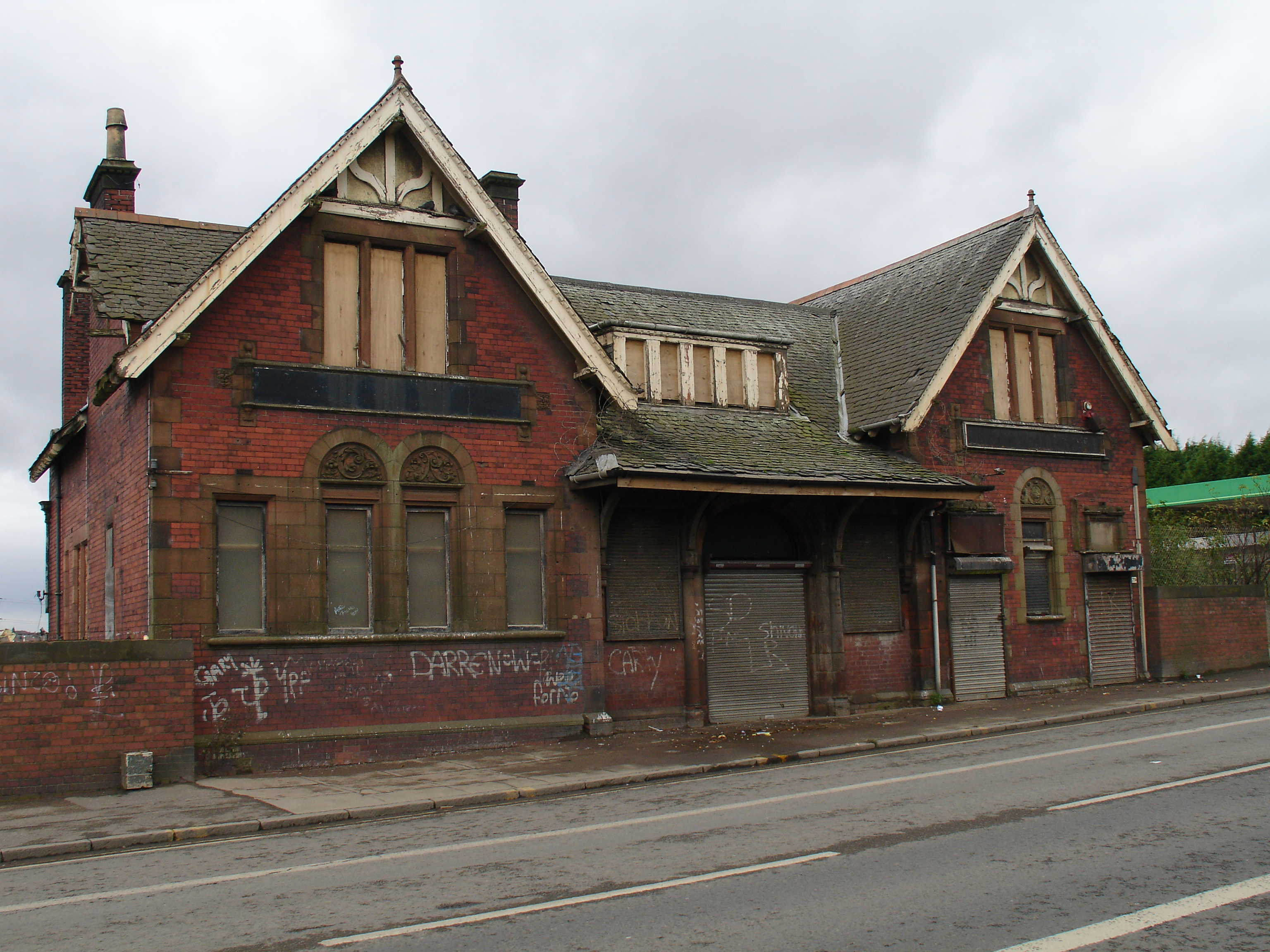 Possil railway station. This impressive station building belonged to the Caledonian Railway (the carvings still visible above the arched windows feature the ornate letters 'C', 'R' and the corporate logo). Possil station was on the Caledonian's Hamiltonhill Branch, connecting Maryhill to Robroyston.